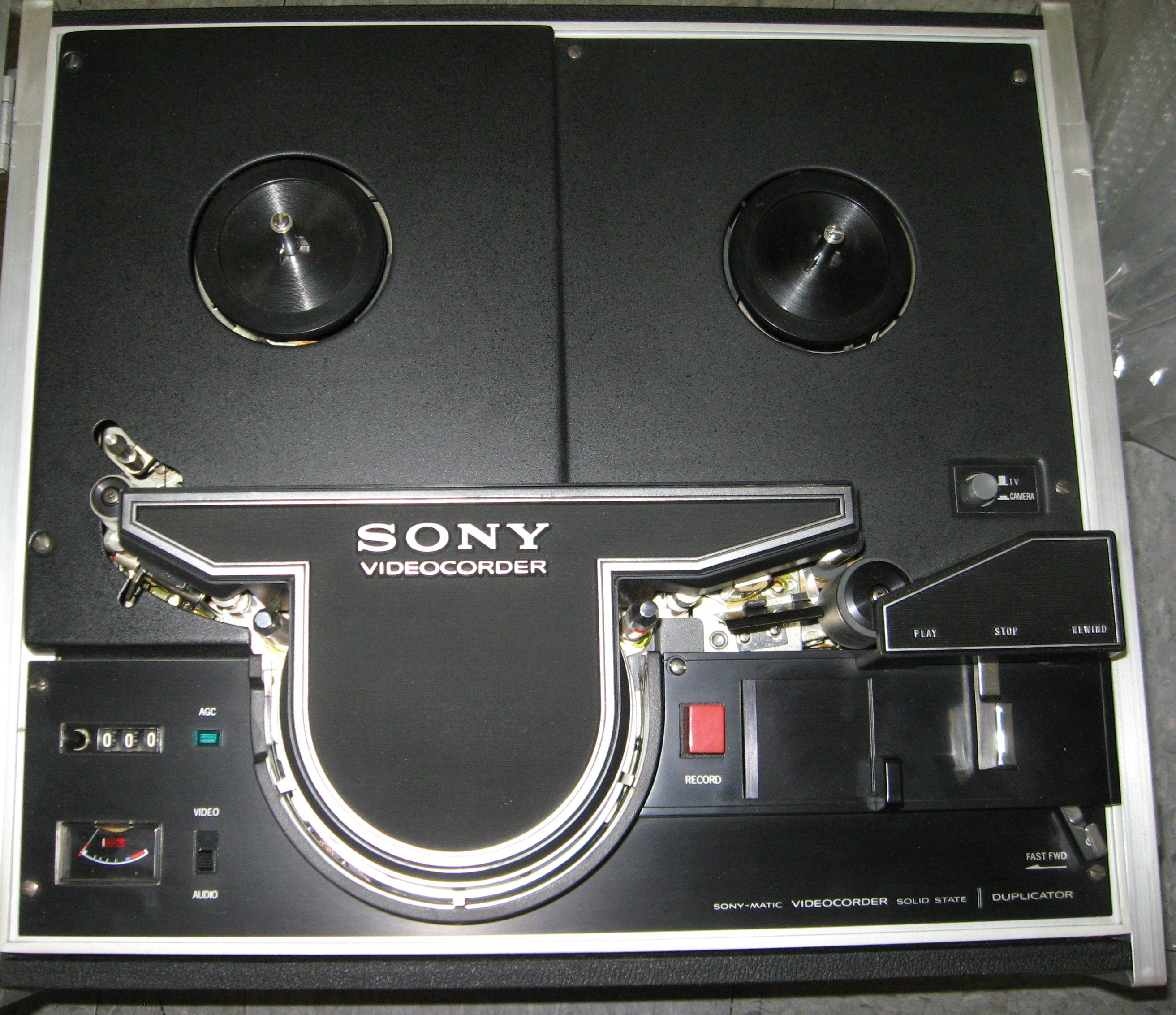 Telecineguy Sony 1/2 inch A3500 VTR at DC Video Burbank, Ca USA